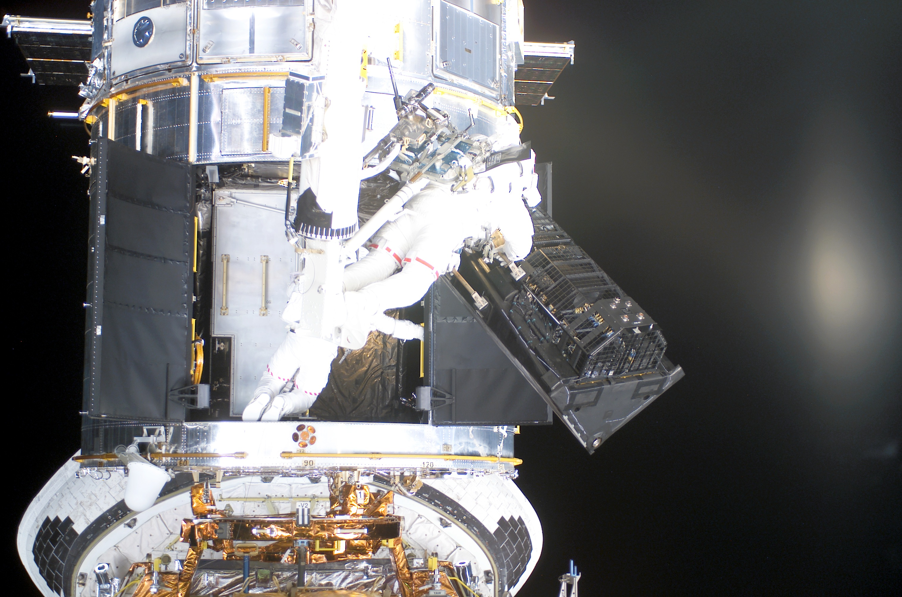 Astronauts James H. Newman and Michael J. Massimino remove the Faint Object Camera (FOC) to make space for the Advanced Camera for Surveys (ACS) on the Hubble Space Telescope (HST). Also visible is the remote manipulator arm and cargo bay of the Space Shuttle Colombia. Photograph was taken by an unidentified member of the shuttle crew from within the orbiter. This spacewalk was held on 7 March 2002 as part of HST Servicing Mission 3B (STS-109). Taken from the NASA Human Spaceflight gallery at .